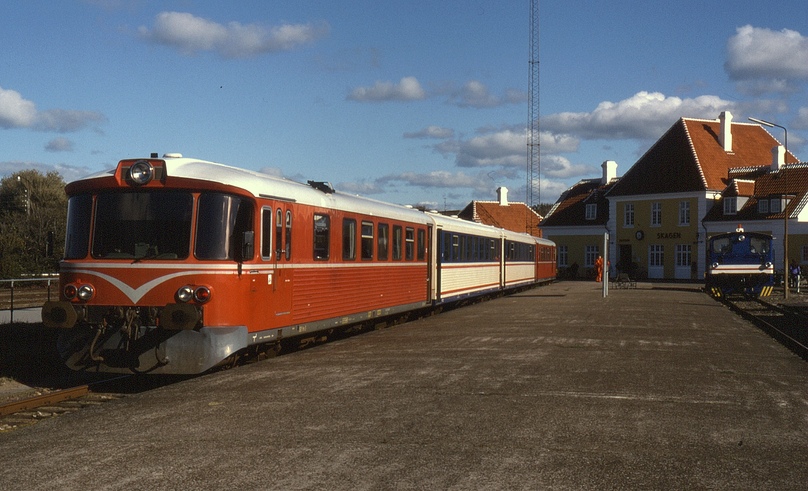 Skagensbanen (SB) was one of many one branch private operations in Denmark. Operating from Frederikshavn to Skagen with both passenger and freight. Back on 18 September 1997 4-car set of "Lynette" DMUs powered by YM4 & Ym5 (in red livery) are ready to work train 61, 15:38 Skagen to Frederikshavn. No surprises as with other private operations, company is now under a different name having merged with Nordjyske Jernbaner.